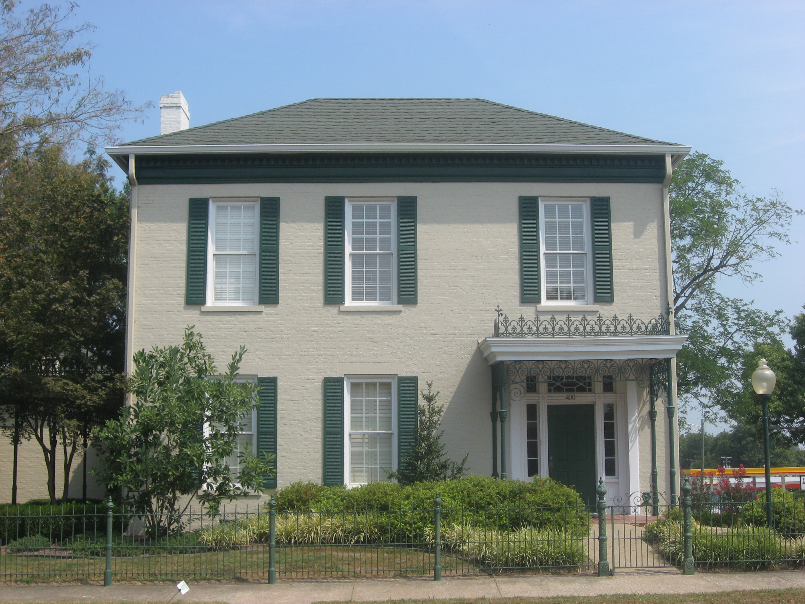 Front of the 1850 Sullivan House, located at 400 Mulberry Street in Mount Vernon, Indiana, United States. Built in 1850, it is a part of the Welborn Historic District, a historic district that is listed on the National Register of Historic Places.